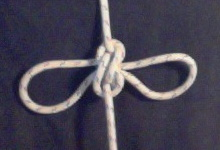 Tumbled alpin butterfly knot